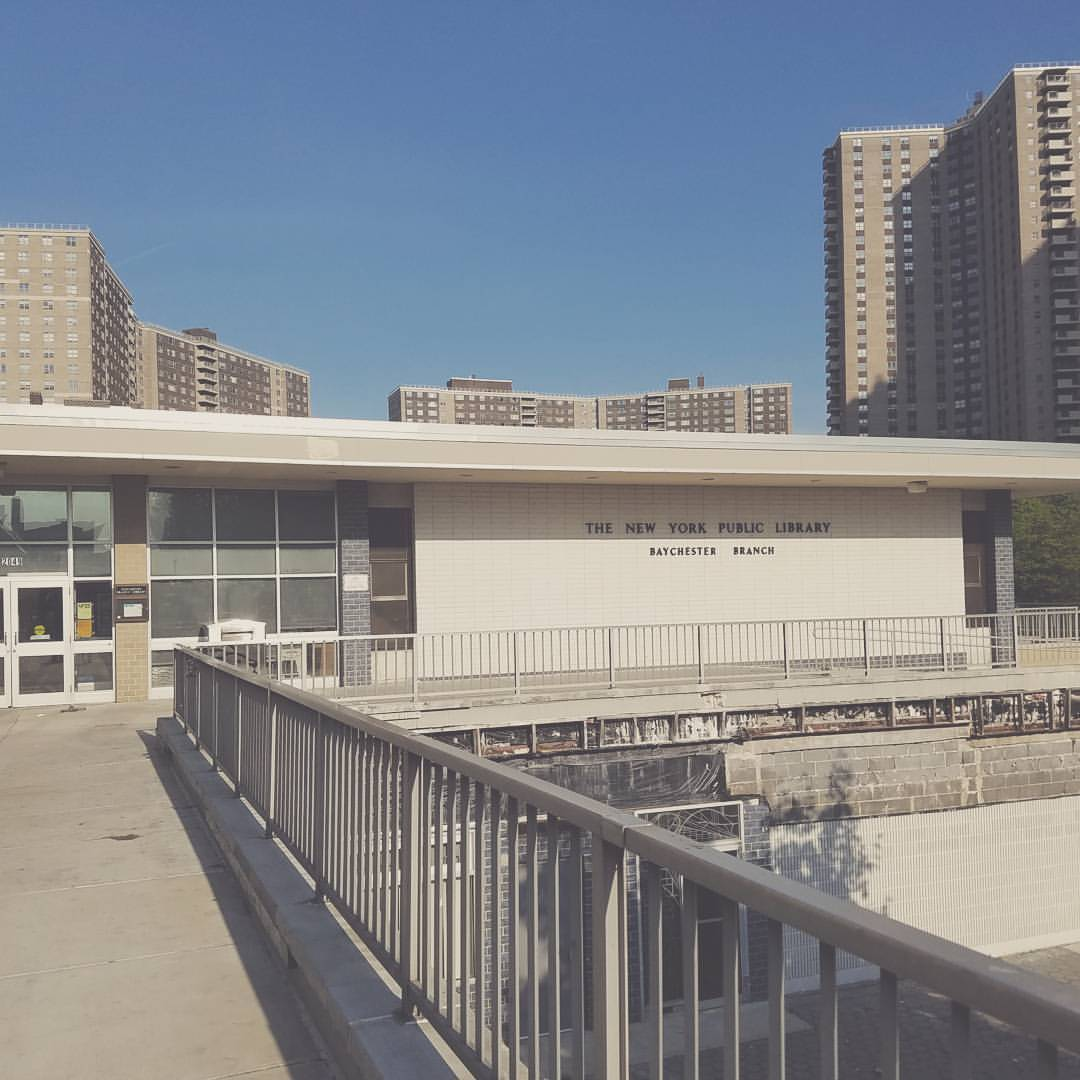 NYPL Bronx Baychester Library Co-op City Library from the city I grew up outside of. Urban life is all about perspective. I'm realizing more and more that there are micro-cities within micro-cities. My family had it lucky, inhabiting a three-story outside of, but close to, Co-op city. I rememb (27173166852).jpg